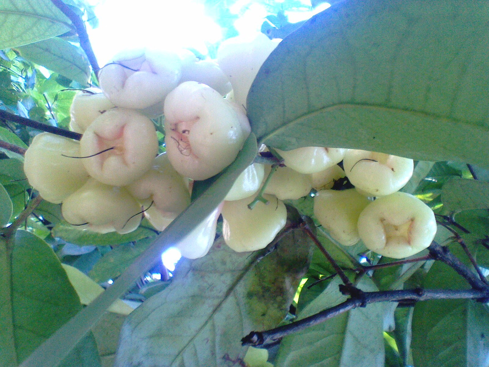 The white Syzygium fruit image was taken form home garden at Matale, Sri Lanka.